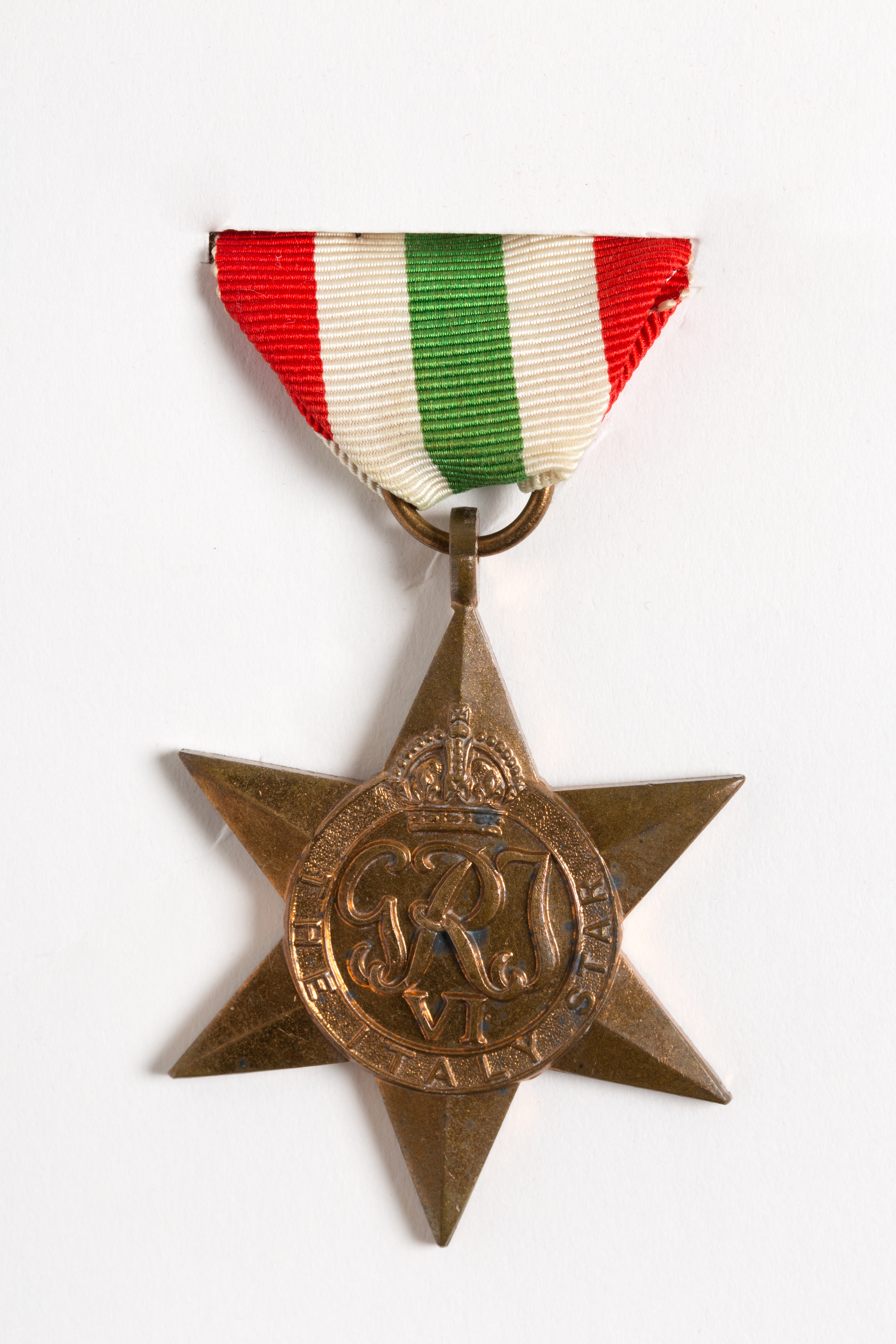 Italy Star, WW2 Awarded to Major Francis Albert Aldridge, DSO (1907-1976) bronze six pointed star 43mm diameter, ring suspender, with ribbon Obverse- In the centre the Royal cypher ‘GRI’ with ‘VI’ below. The cypher is surmounted by a crown on a circlet which bears the title of the star ‘THE ITALY STAR’ reverse- plain Ribbon- 32mm wide grosgrain ribbon, The Italian colours are represented on the ribbon by equal stripes of red, white, green, white, red.